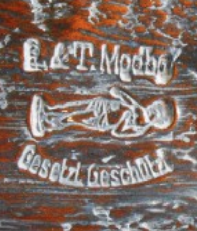 Logo of Reps & Trinte, Magdeburg